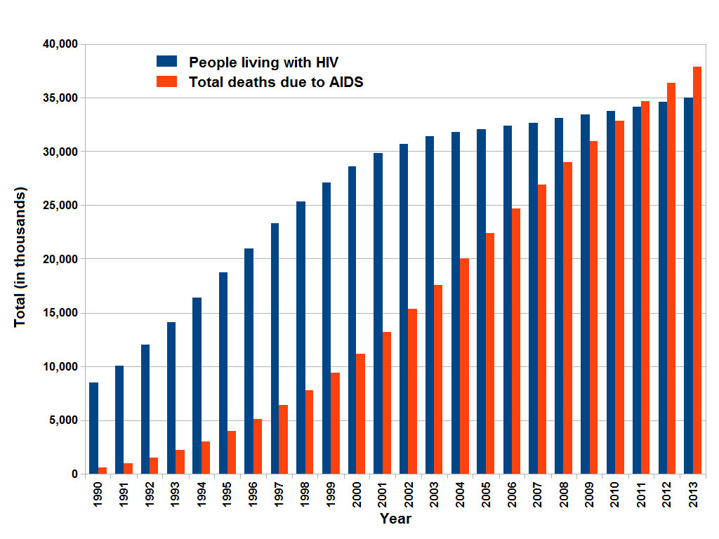 AIDS cases worldwide, showing the number of people living with HIV each year since 1990, and the total cumulative number of deaths.